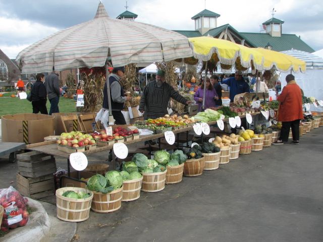 Farmers & Artisans Market, Farmington Michigan US picture: Scott Stevenson/ARTZIEPHARTZIE graphic design